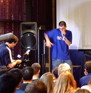 Shlomo beatboxing at the Dana Centre in London.